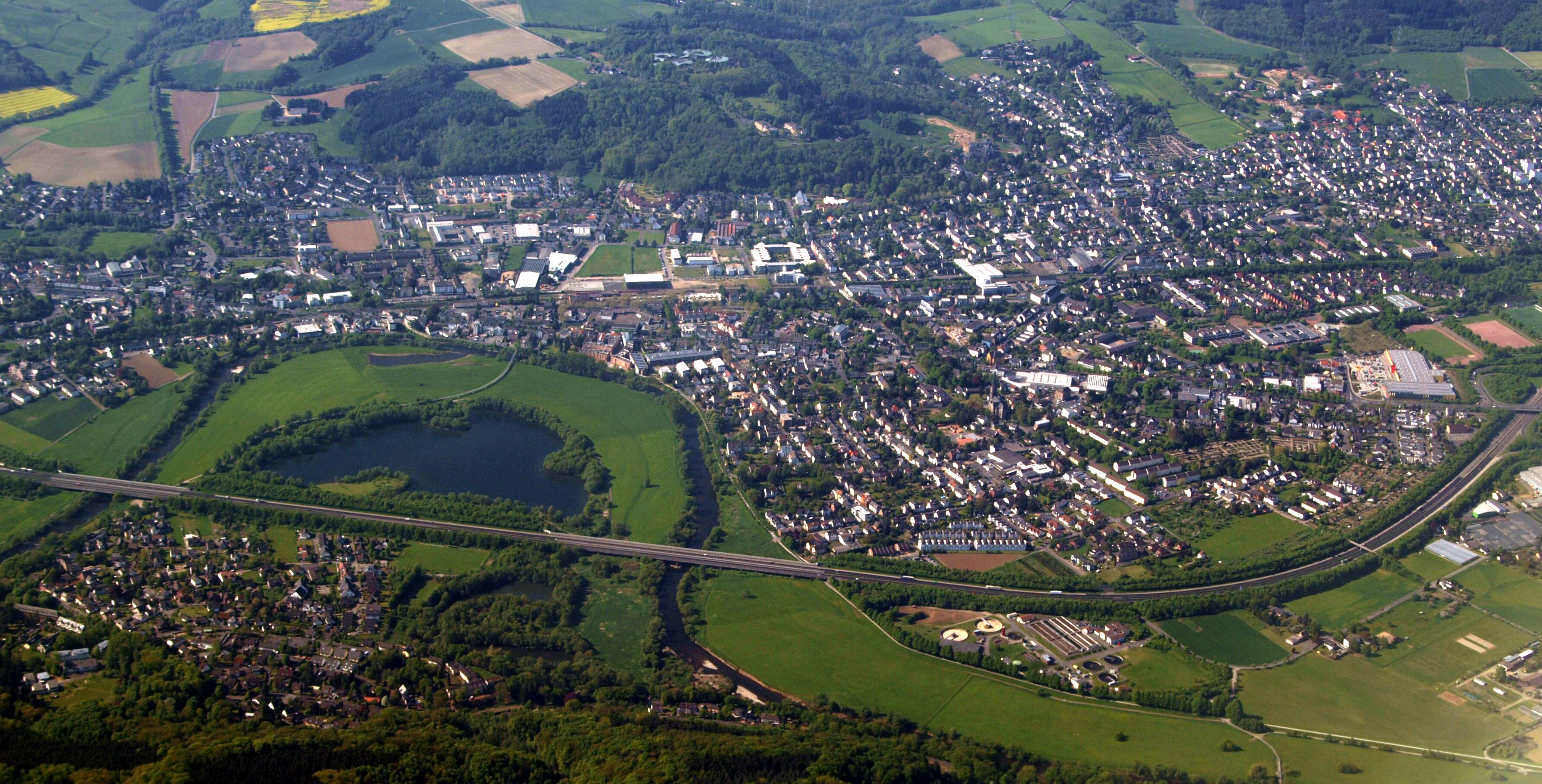 Aerial view of Hennef, Germany, in the foreground are river Sieg and Bundesautobahn 560.